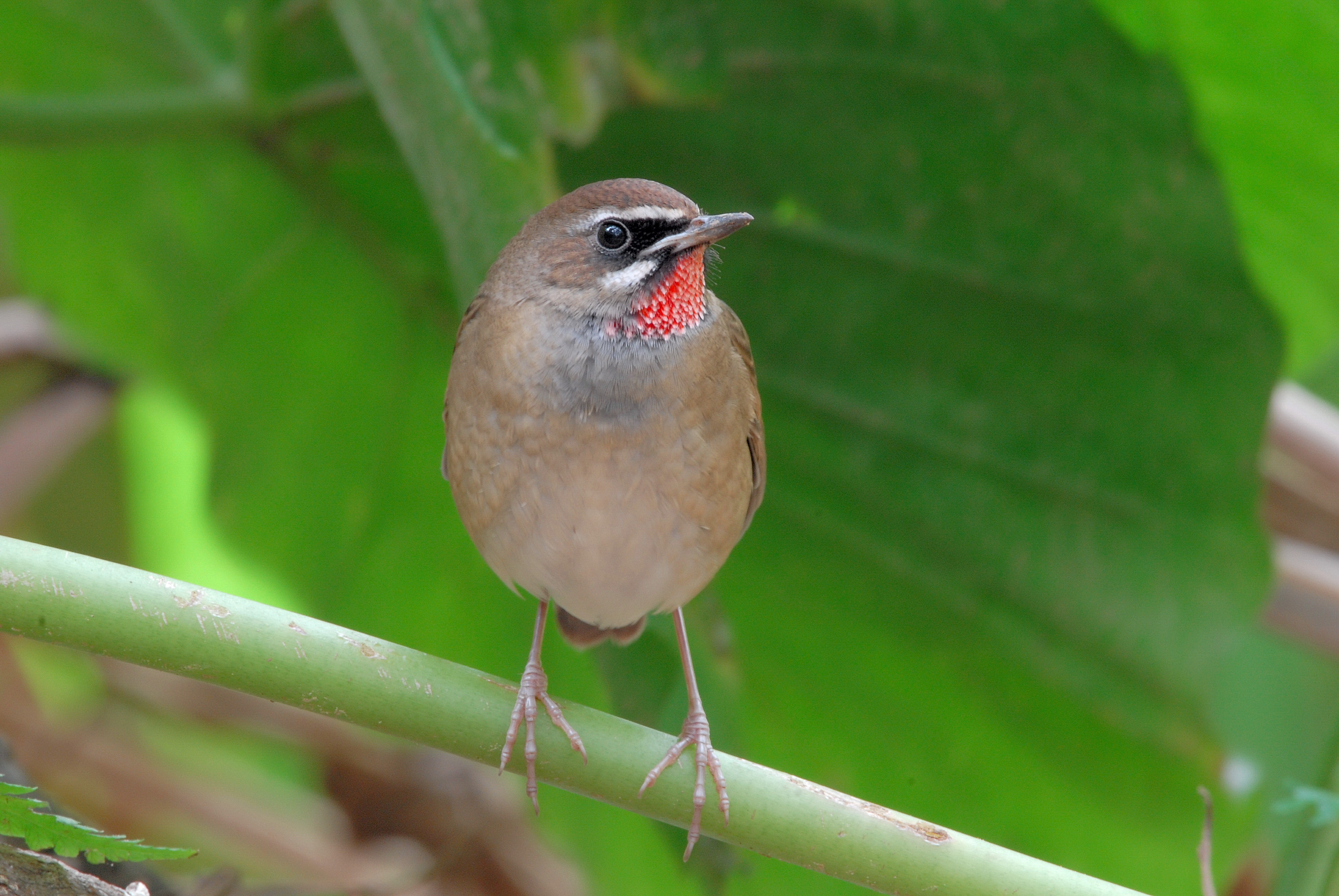 Siberian Rubythroat, Luscinia calliope - male Bân-lâm-gú: 公的紅胿仔。 kang-ê ang-kui-á.